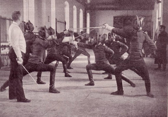 History of Military academy Belgrade